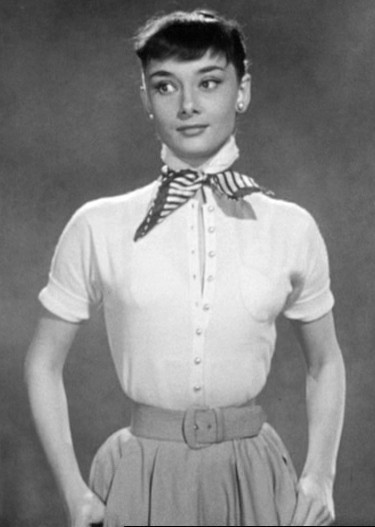 Cropped screenshot of Audrey Hepburn from the trailer for the film Roman Holiday.